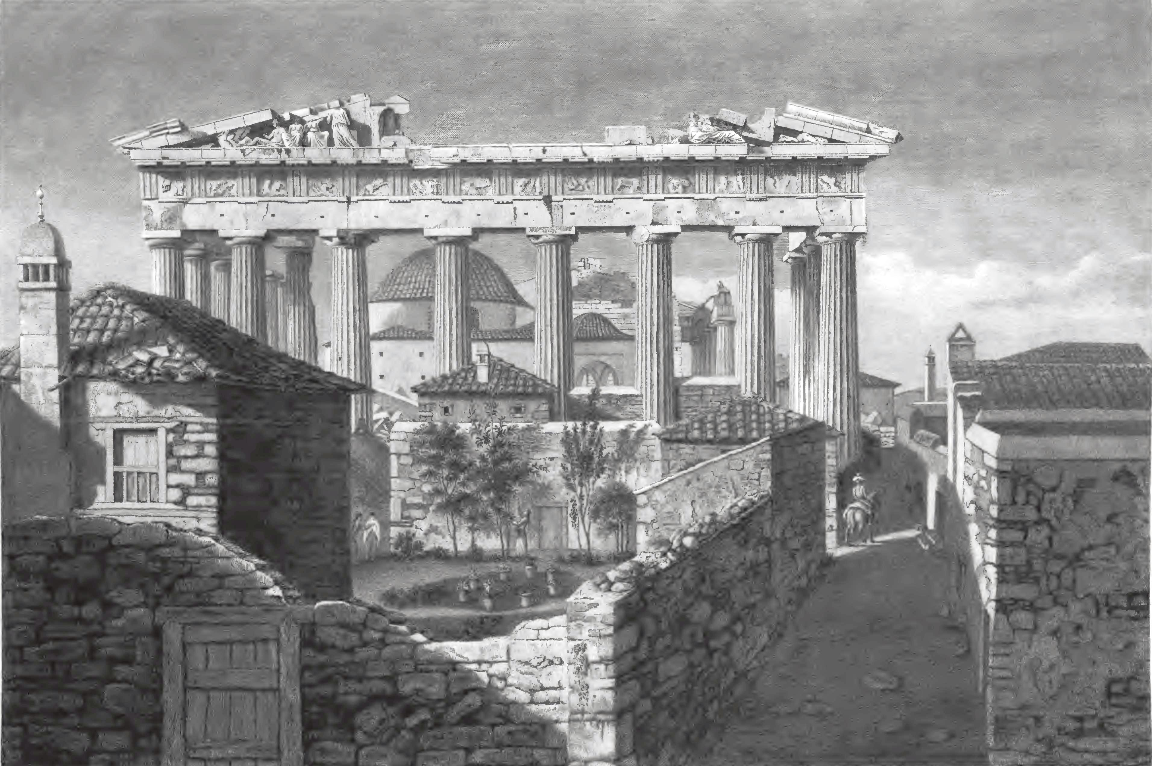 The Parthenon